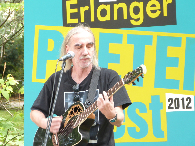 Austrian writer and musician Gerald Jatzek at the Erlanger Poetenfest 2012